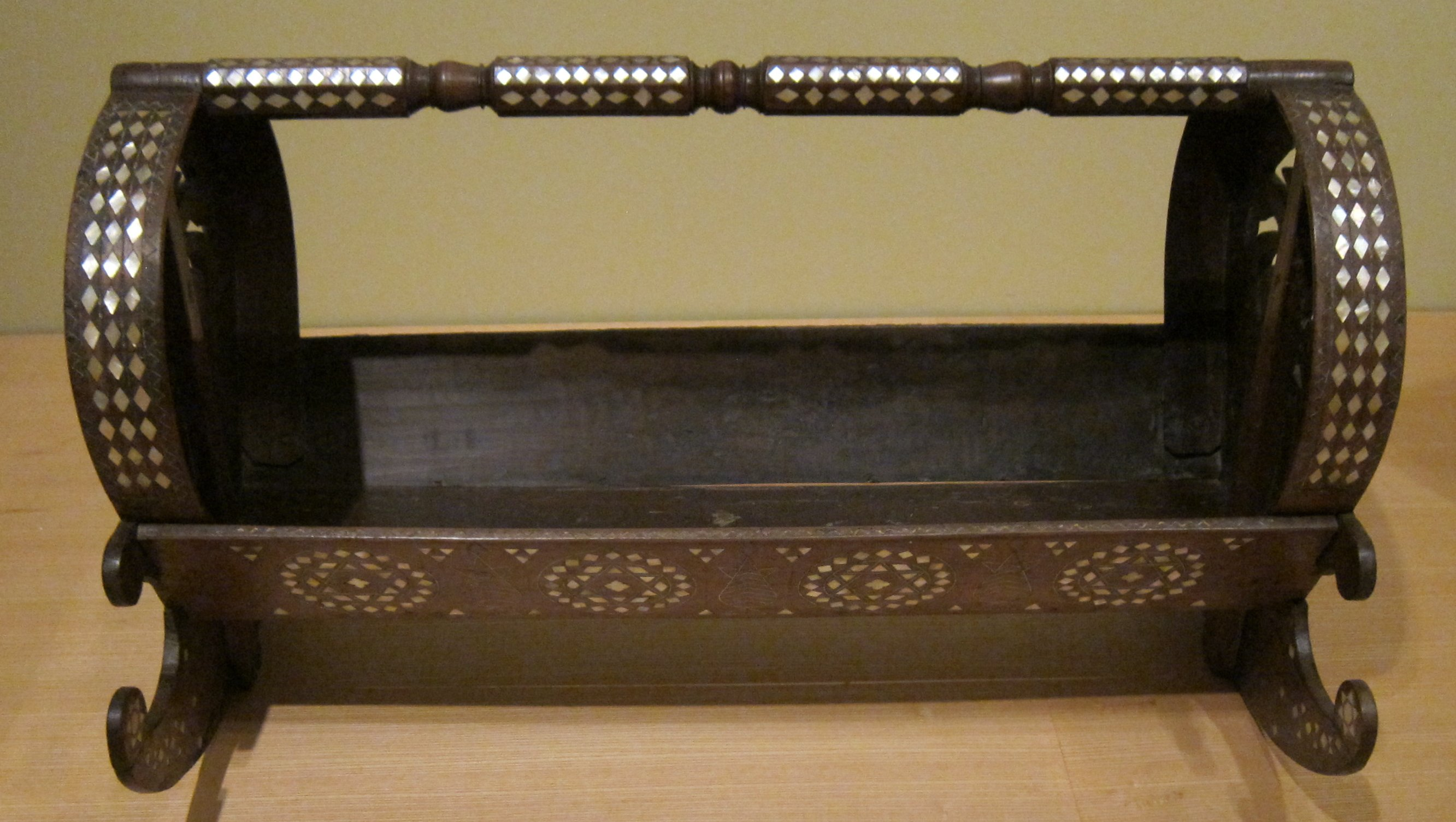 Cradle from Damascus, Syria, 19th century, wood, mother-of-pearl and metal wire, Honolulu Academy of Arts (long-term loan from Doris Duke Foundation for Islamic Art)